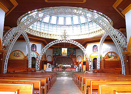 Church interior with exposed steel arches, and dome — in Nova Veneza, Goiás, Brazil